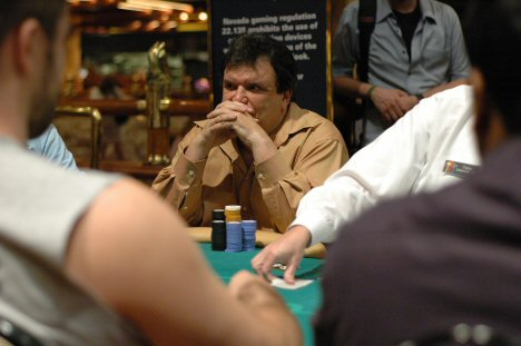 "Miami" John Cernuto playing in the WPT main event at the Mirage (World Poker Tour / PPT / Mirage Poker Showdown 2005).